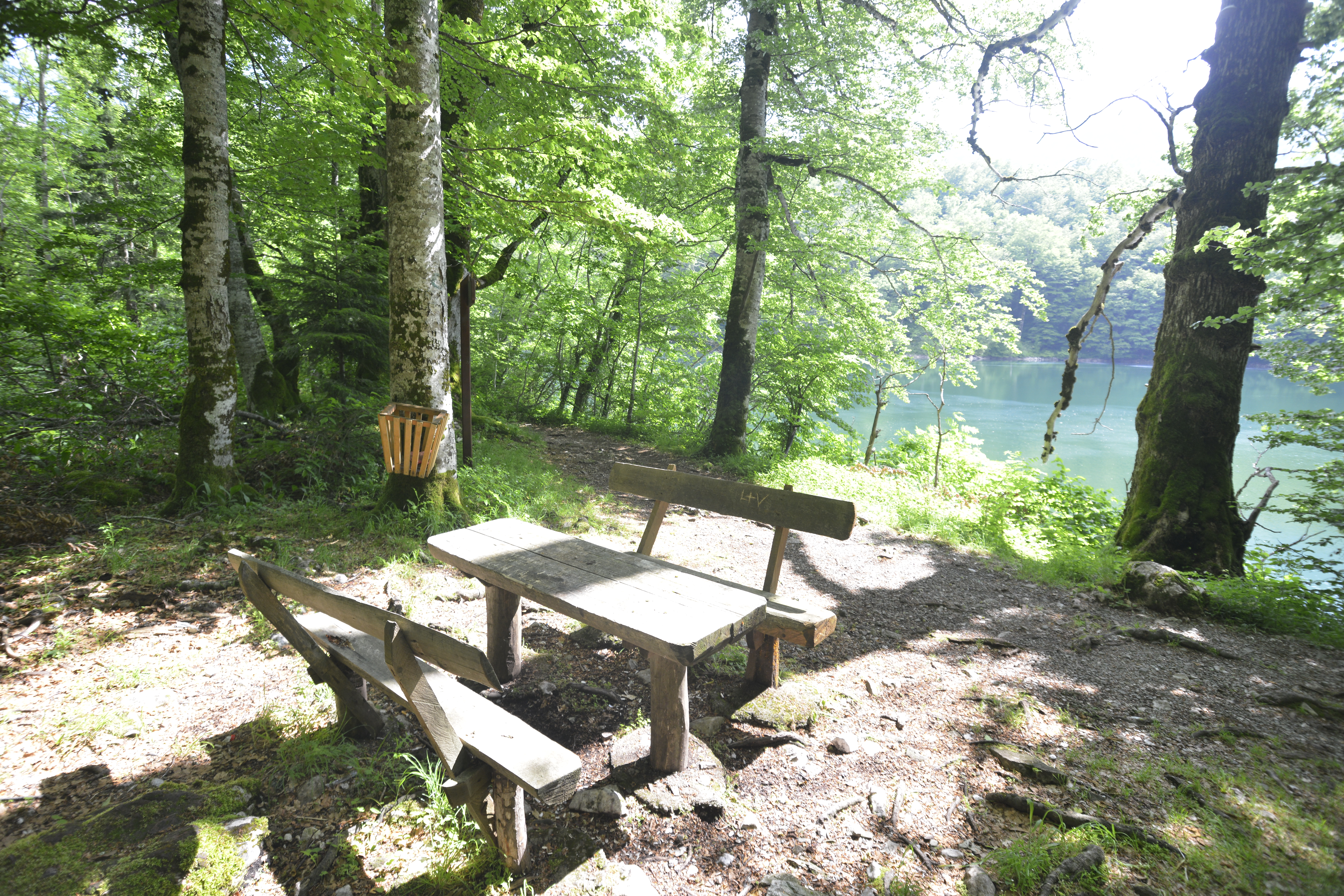 Beauty of National Park Biogradska Gora, Montenegro